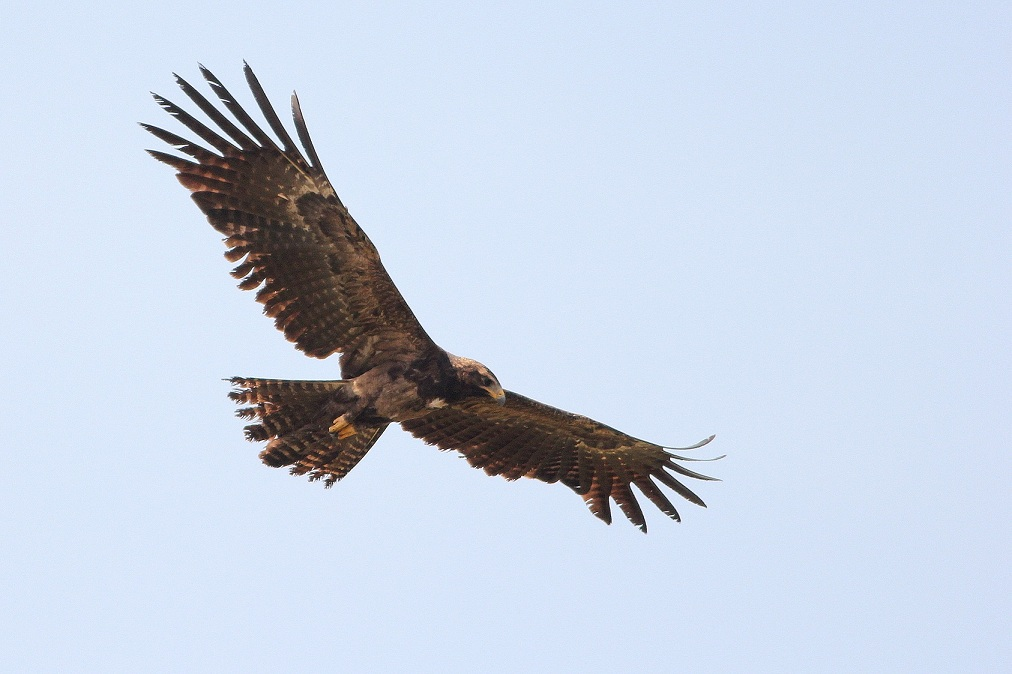 Taken in Kaggalipura.